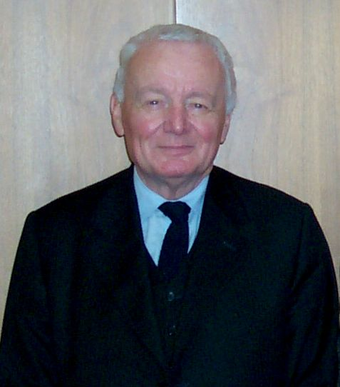 Arnulf Baring, visit at the CJD Christophorusschule Königswinter